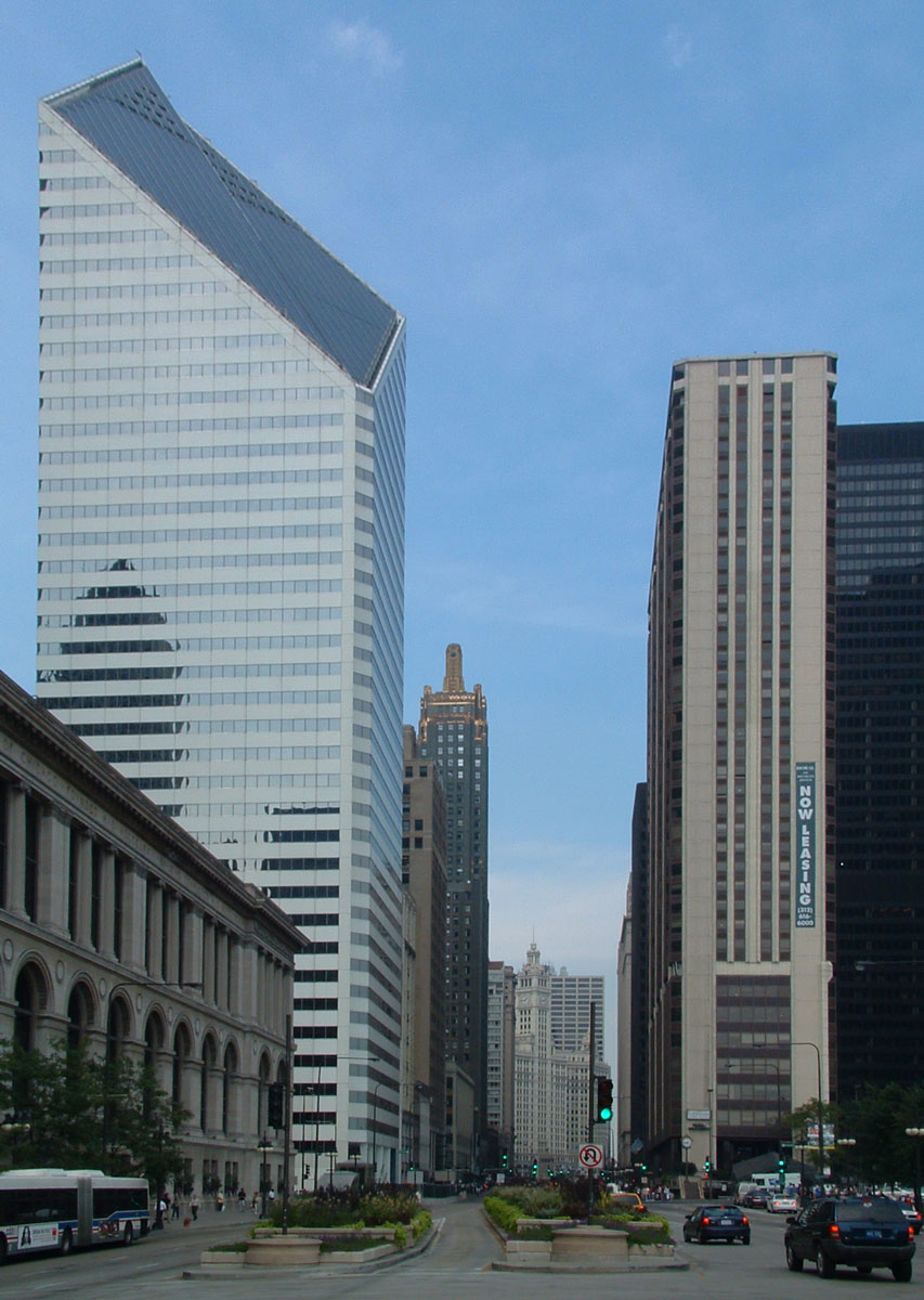 A view of Michigan Avenue in Chicago, Illinois, looking north from its intersection with Washington Street. Notable visible buildings include, in clockwise order from left, the Chicago Cultural Center, the Smurfit-Stone Building, the Carbide and Carbon Building, the Wrigley Building and the Prudential Building. Photograph taken August 26, 2005 by Kelly Martin.